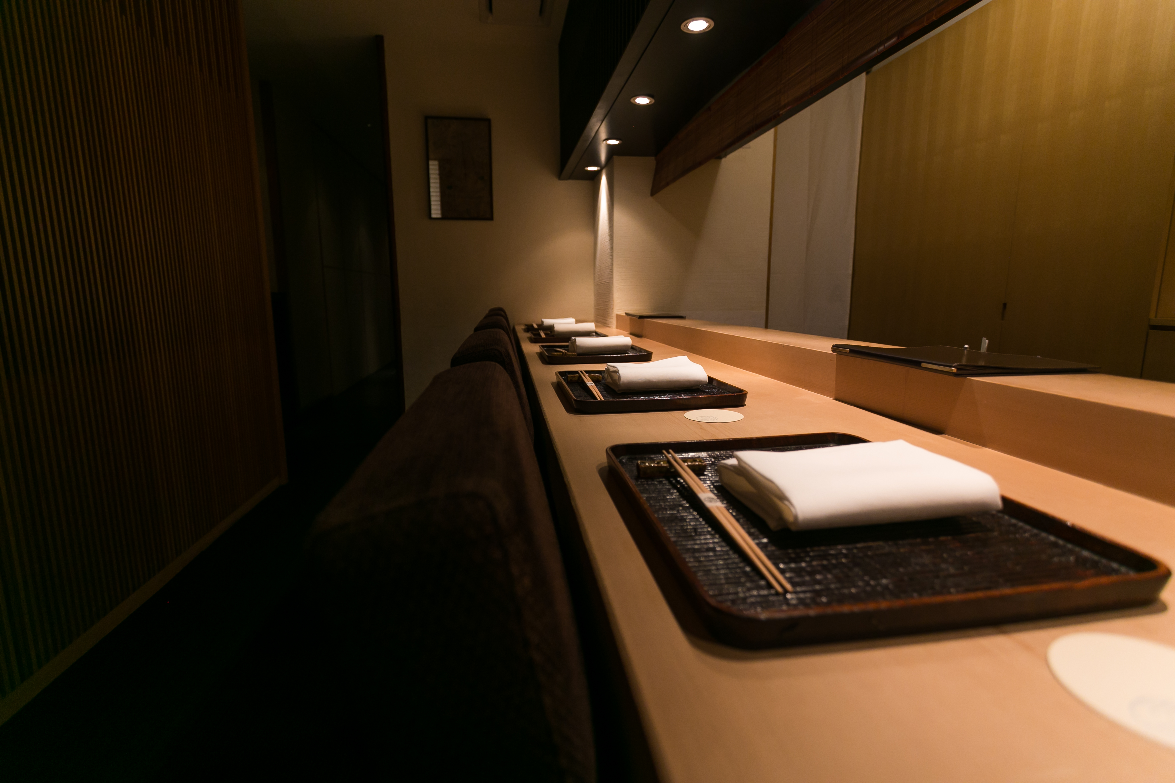 Kagurazaka Ishikawa, Tokyo, JPN Date Visited: December 20, 2013 City Foodsters Facebook | Twitter | Instagram